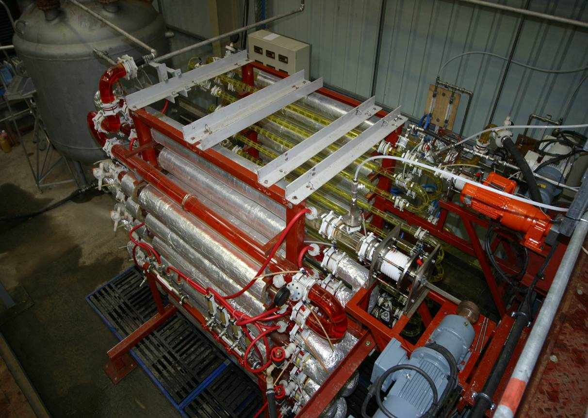 JRL